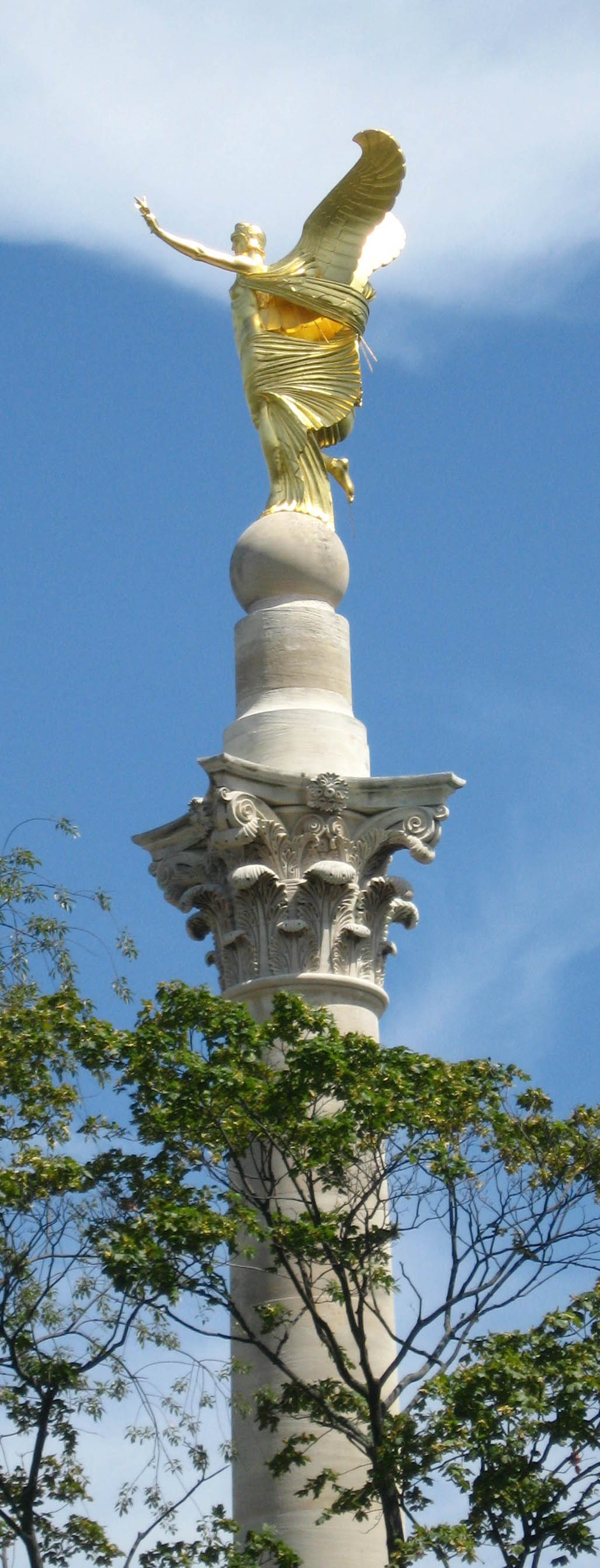 Looking up and north at The Bronx Victory Column & Memorial Grove in Pelham Bay Park on a sunny midday.